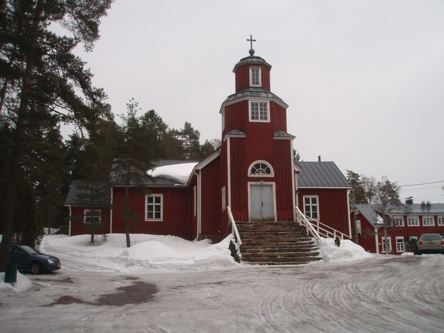 Haapajärvi wooden church in Kirkkonummi, built in 1823